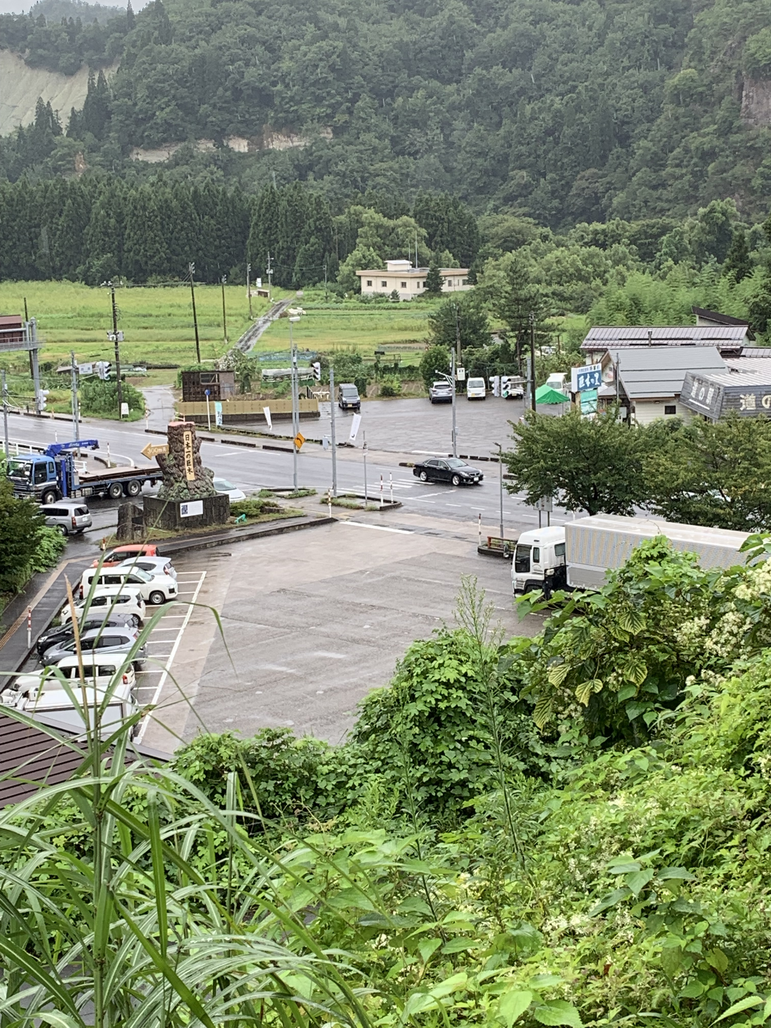 Mikawa, Roadside Station, Niigata, Japan. Took photo in August 2019.